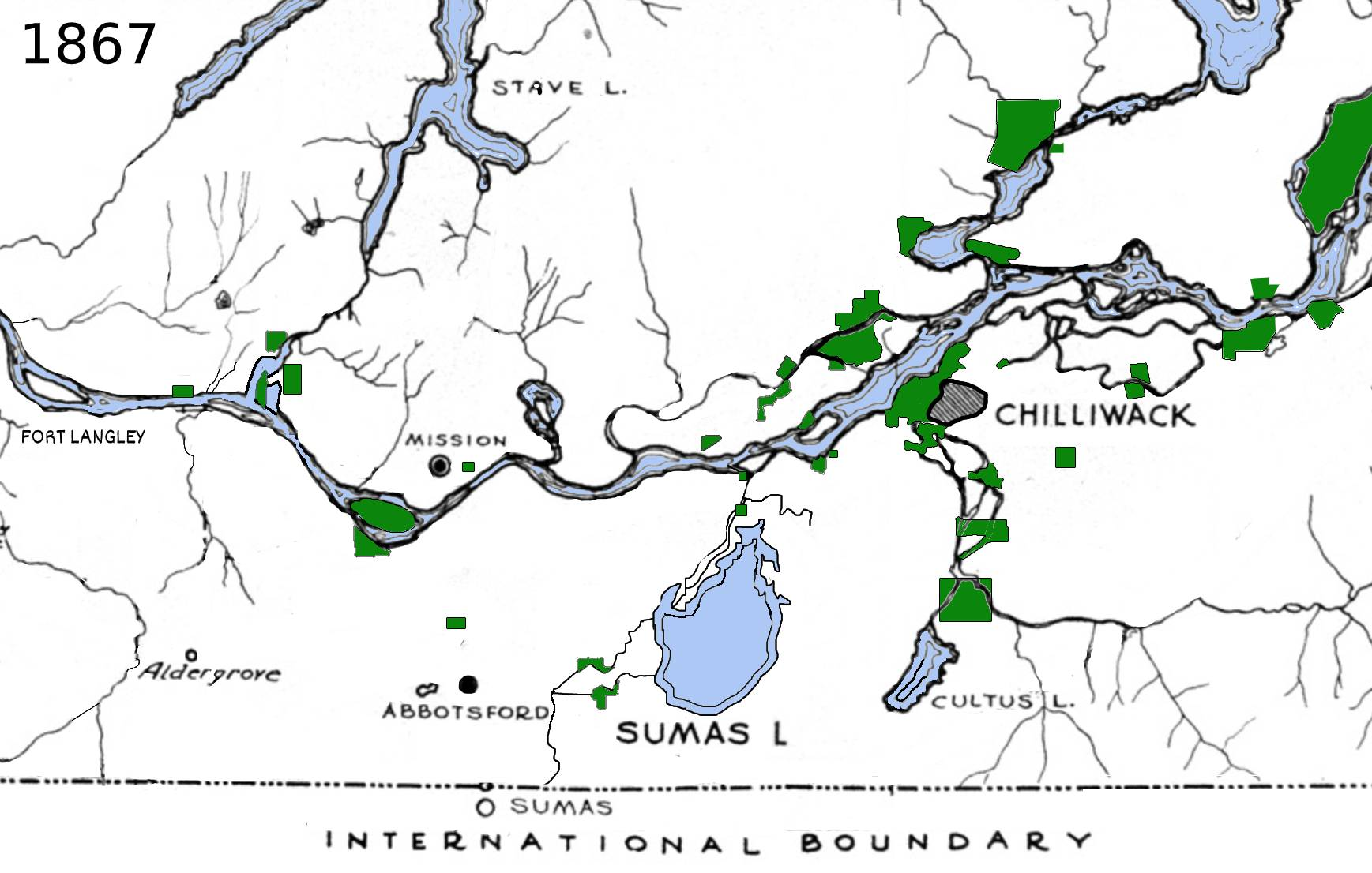 Colony of British Columbia Governor James Douglas asked Sergeant William McColl to make a map of the land of the Central Fraser Valley First Nation peoples. Soon after the survey was completed Douglas retired and McColl died. Joseph Trutch, the Chief Commissioner of Lands and Works, was placed in charge of the reserves. He felt that the Stó:lō did not need most of the land promised to them by Douglas and McColl. Trutch believed that if the land was not being used for agrarian purposes it was not required. He reduced the reserves by 91% in 1867, siding with the settlers who had begun to build homes and farms in the area.